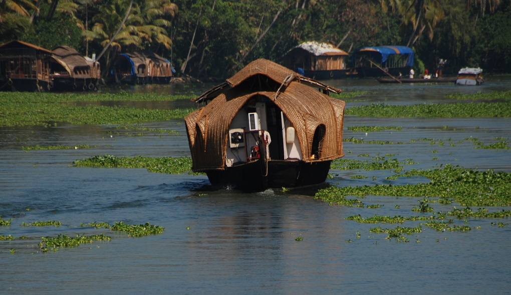 Luxurious houseboats offer you 3 star comforts in terms of room and food, with AC rooms and decks to relax on